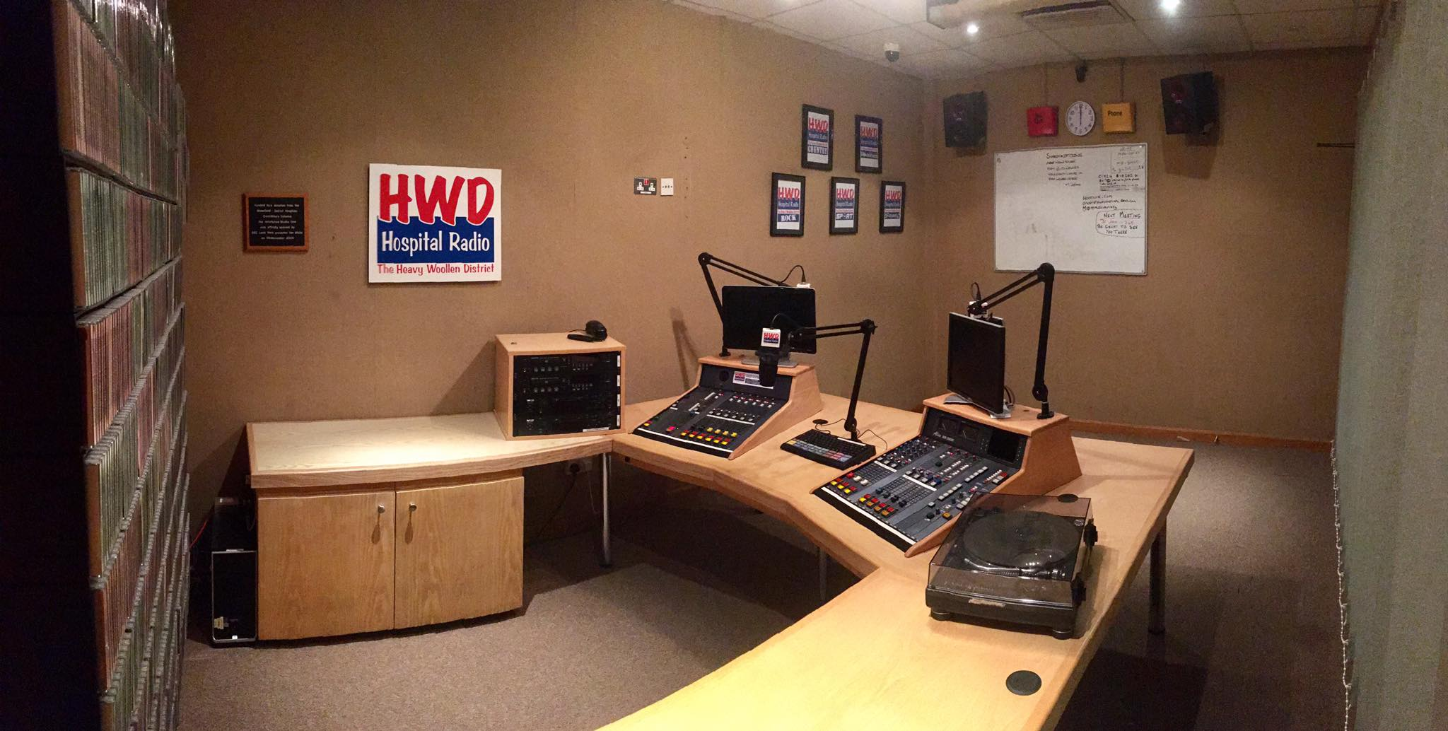 Studio One at HWD Hospital Radio; a hospital radio station which broadcasts to the patients and staff of Dewsbury and District Hospital in West Yorkshire, United Kingdom.